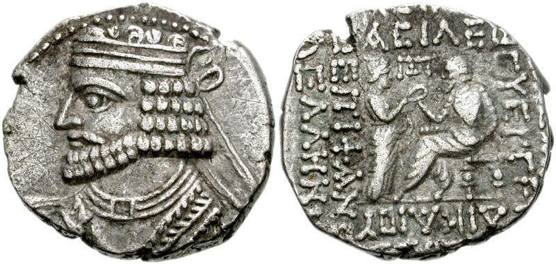 Coin of Vologases I.